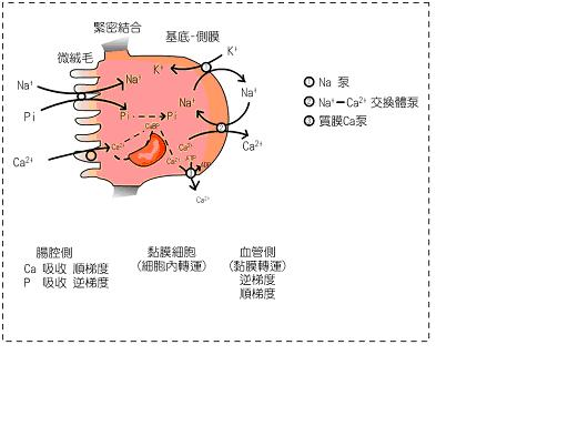 human metabolism of P and Ca